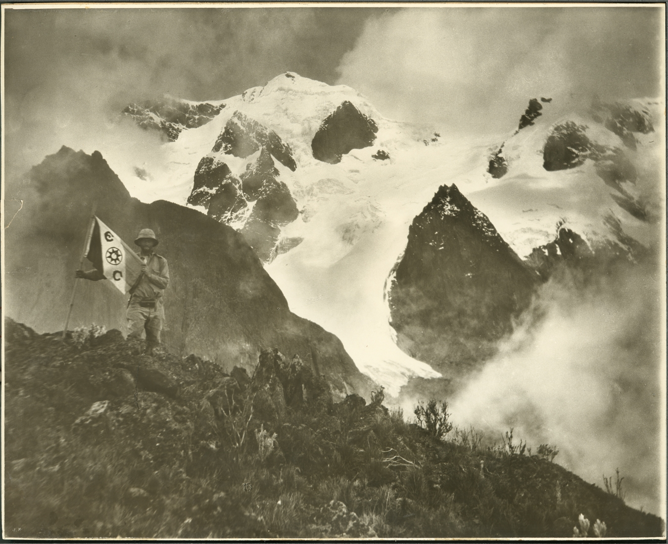 Ornithologist James P. Chapin displays Flag #4 on expedition in the Ruwenzori Mountains, 1925.